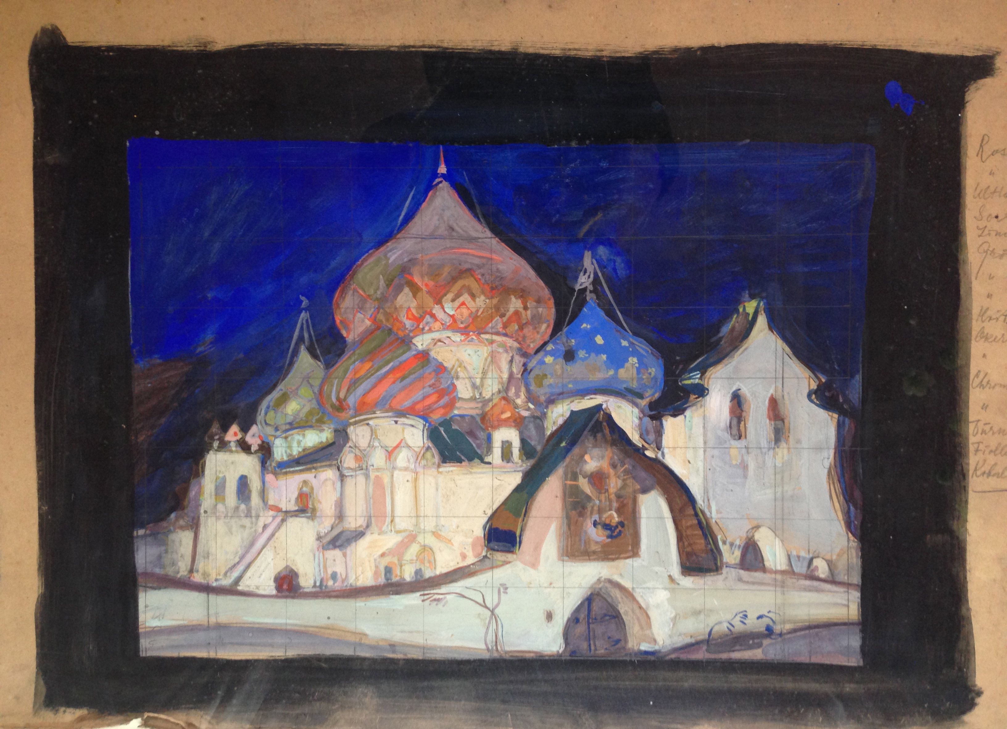 Set design sketch by the Russian/Norwegian artist and scenographer Alexey Zaitzow